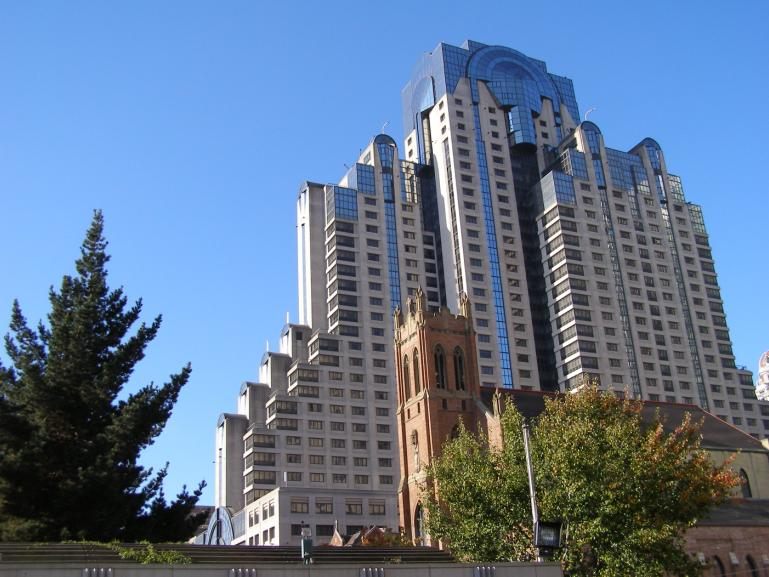 San Francisco Marriott with St. Patrick's Catholic Church in the foreground.